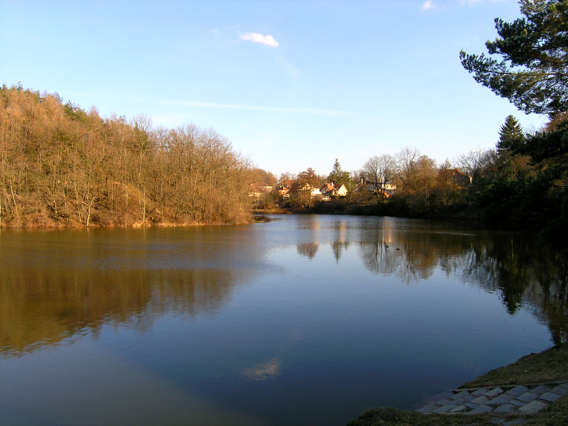 Hornomlýnský pond at Kunratice, Prague